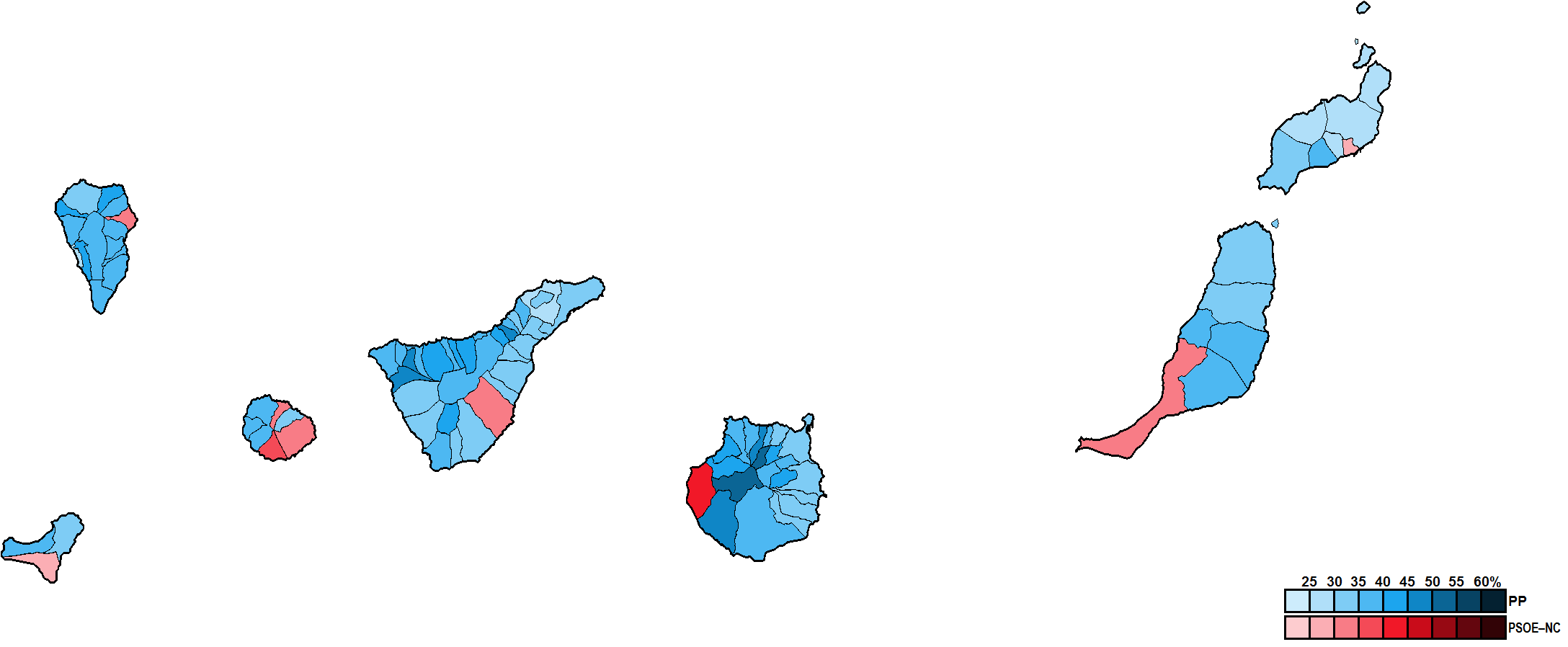 Most-voted party in Canary Islands municipalities, showing vote share obtained, in the Spanish general election, 2016.